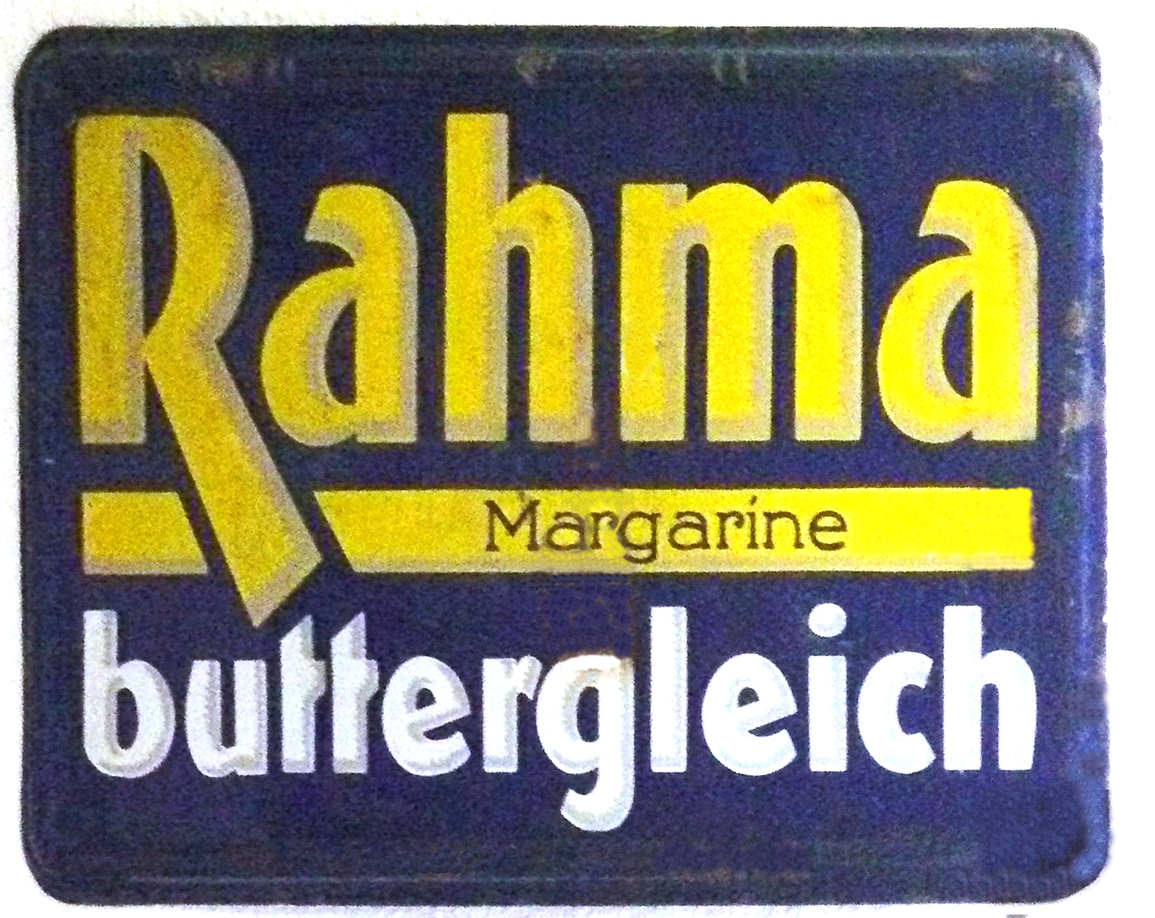 Rahma (Rama) Margarine.